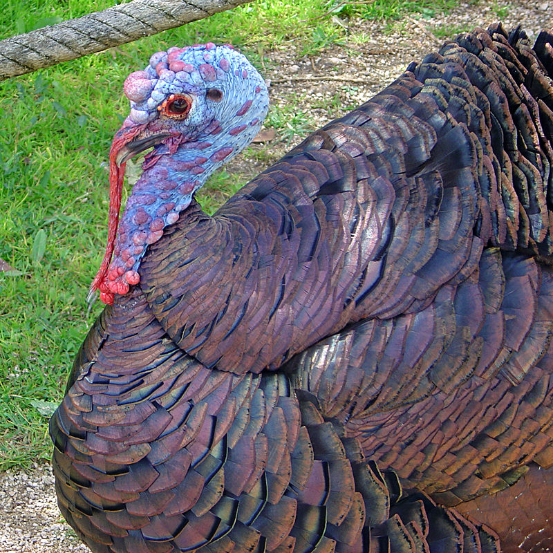 Turkey in Portugal. 2007-03-26. Peru em Portugal. 2007-03-26.